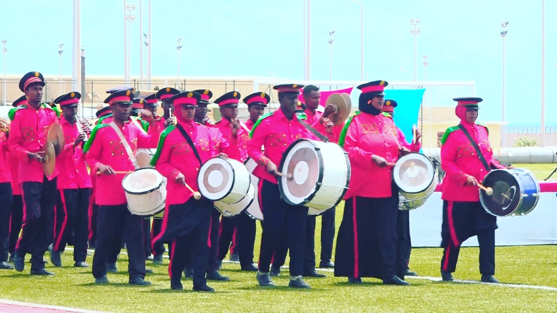 Soomaaliga: Kooxda Bambeyda ee Militariga Soomaaliyeed This is an image with the theme "Play" from: Somalia